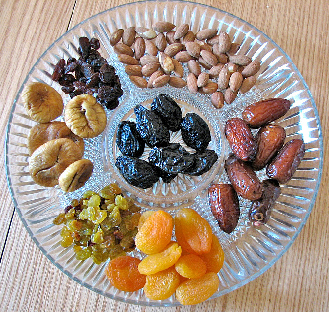 Dried fruit and nuts on a platter, traditionally eaten on Tu Bishvat.